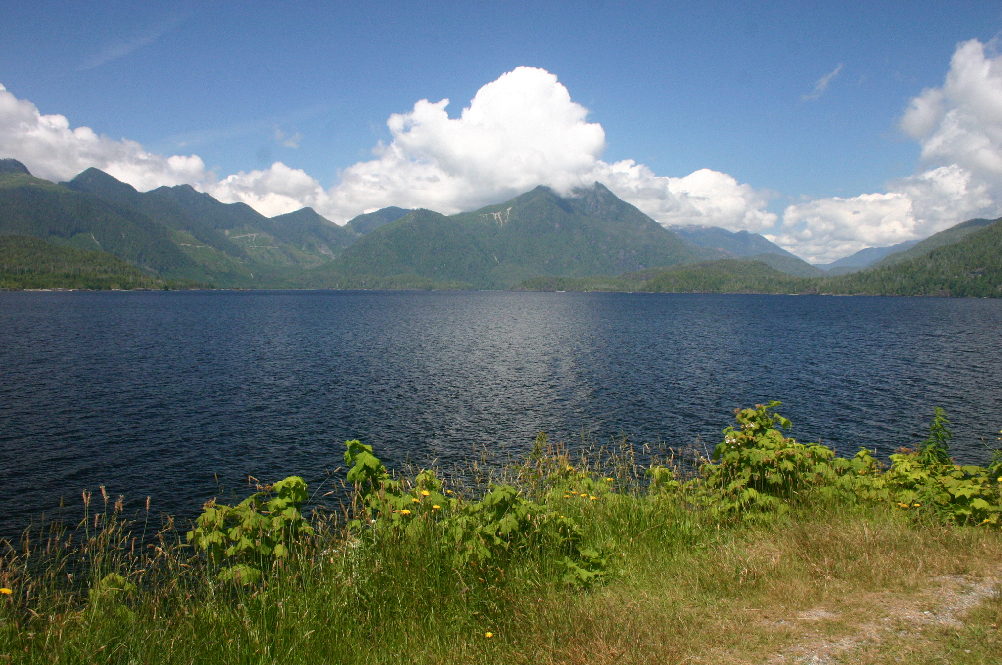 Kennedy Lake along Highway 4 that leads into the Pacific Rim National Park. The white clouds roughly follow the contours of the mountain.